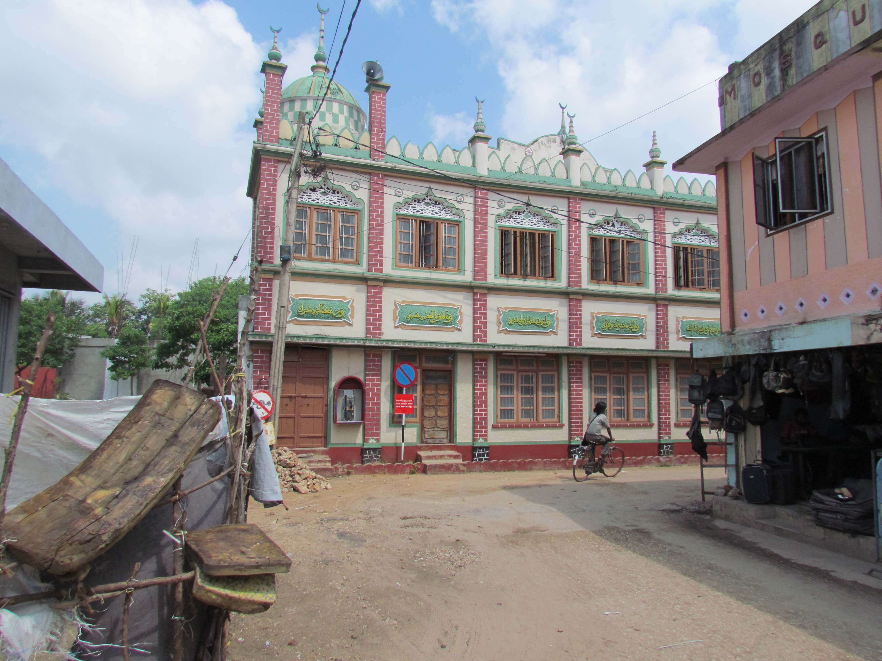 A visit to the market in Jaffna city centre on Tuesday 6 December, 2011.